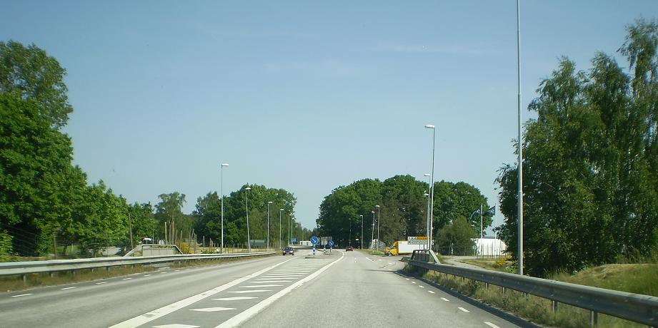 E22 highway in the province of Blekinge, Sweden